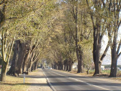 The Bacchus Marsh Avenue of Honour in Autumn.